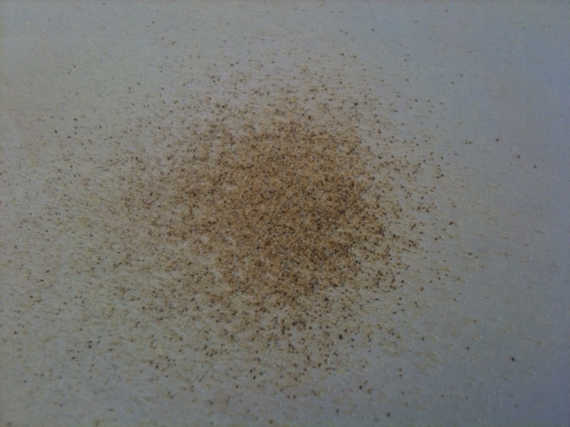 White pepper grains